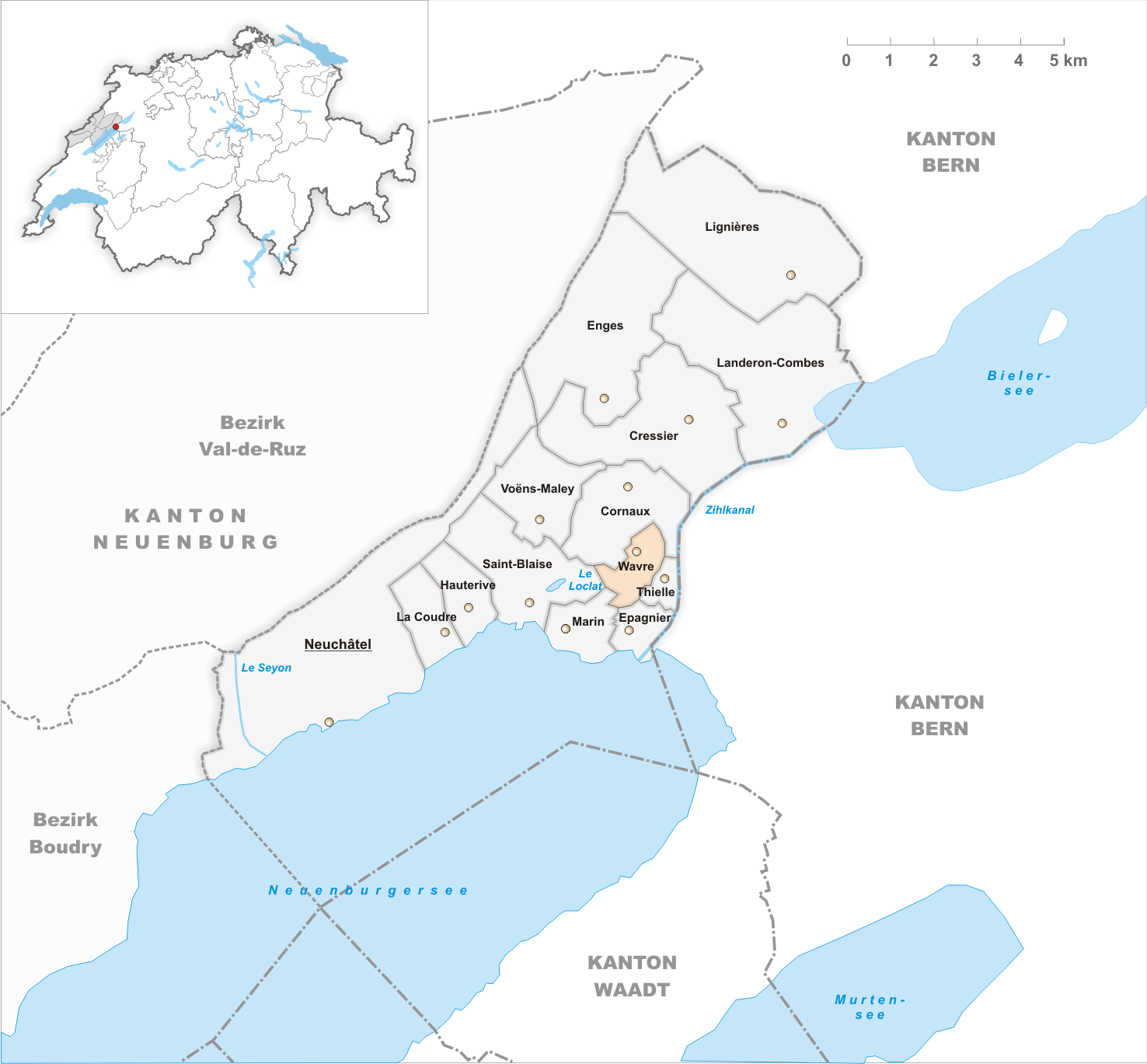 Municipality Wavre Artist: Tschubby